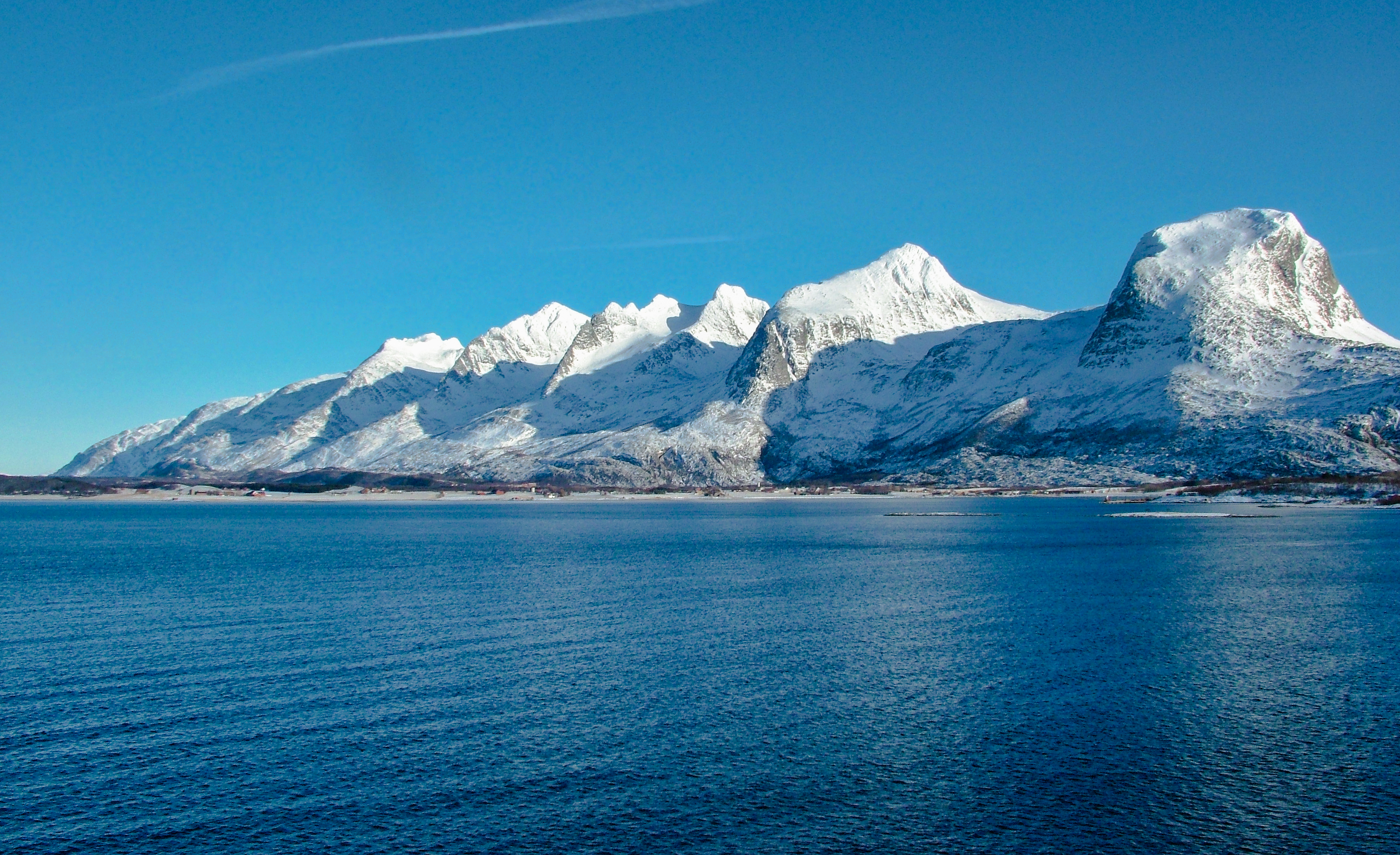 De syv søstre in Norway. Photographed from the deck of the Hurtigruten liner MS Finnmark.